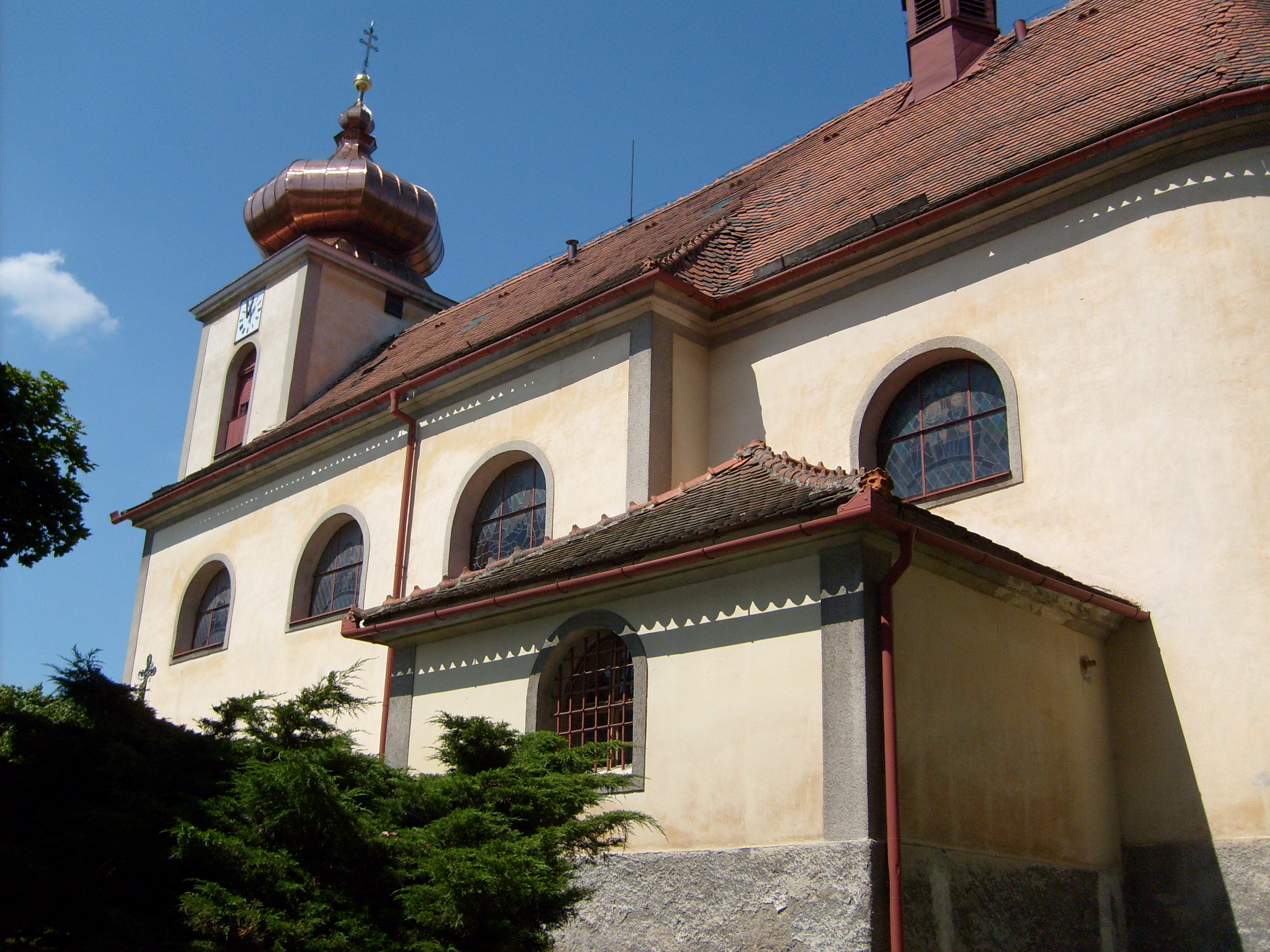 Saint Lawrence church Horní Štěpánov, Olomouc District and Region, Czech Republic